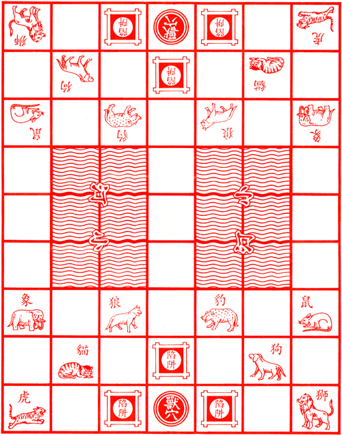 Source Object: Paper board of Chinese board game Dou Shou Qi known in English as Jungle. The board a is typical generic version used by several manufacturers of the game. Scanned by: Steven Varner, User:Parsa Date: 2007.01.09 Open use rationale: This is an image of a generic game board used for Dou Shou Qi. These are made of either paper or plastic, folded, and included with all inexpensive Dou Shou Qi sets sold in chinese stationary stores and game shops. The image is one that I scanned and cleaned up in Adobe Photoshop.